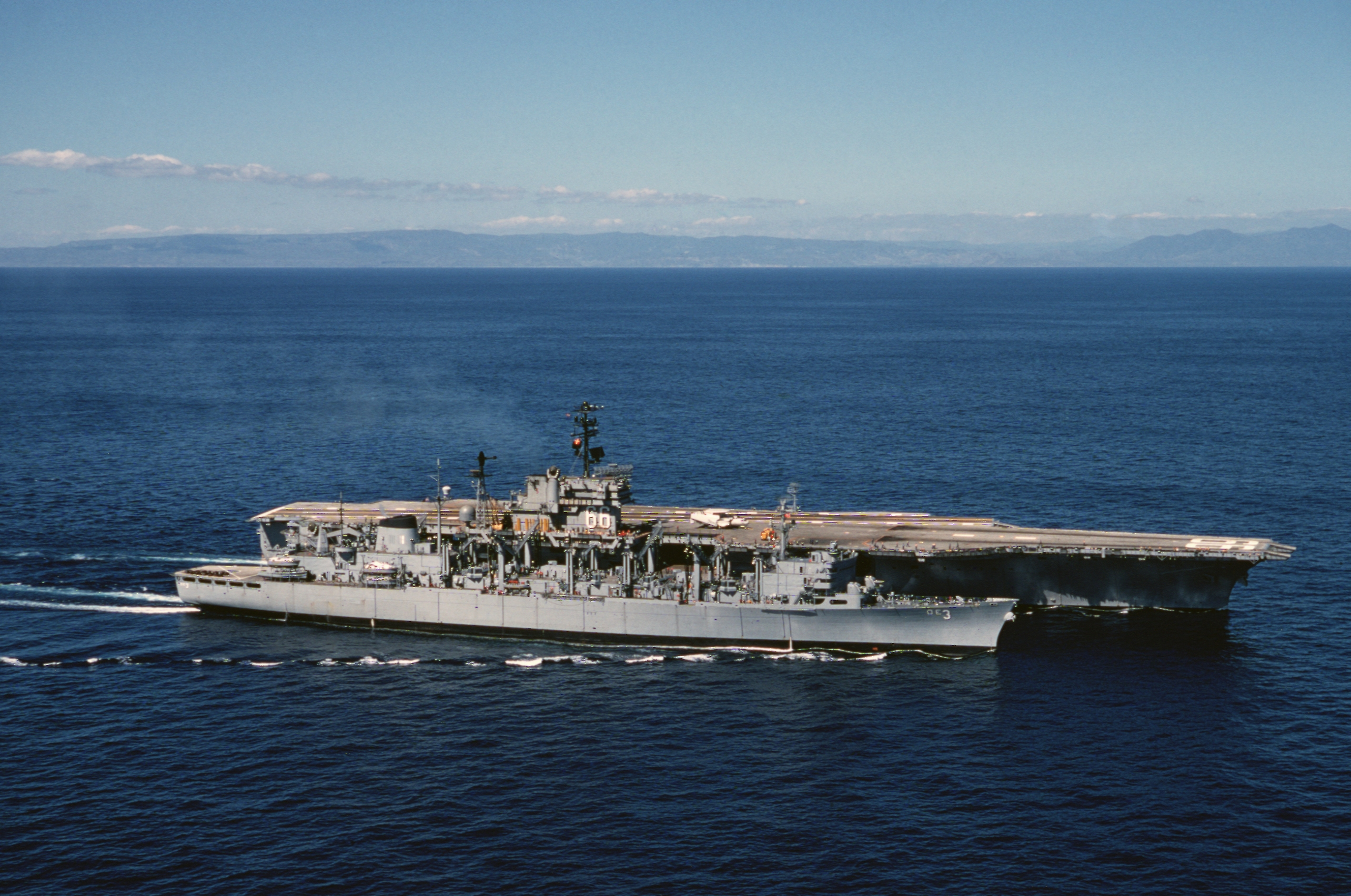 The U.S. Navy fast combat support ship USS Seattle (AOE-3) alongside the aircraft carrier USS America (CV-66) during an underway replenishment.